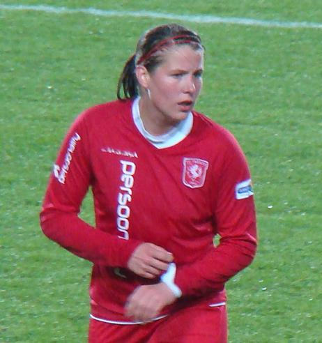 FC Twente player Lenie Onzia